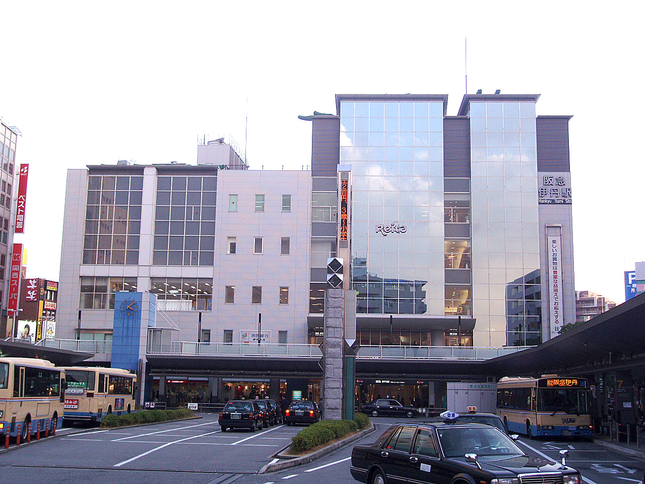 Hankyu Railway Itami Line Itami Station Building 阪急電鉄 伊丹線 伊丹駅 駅建物